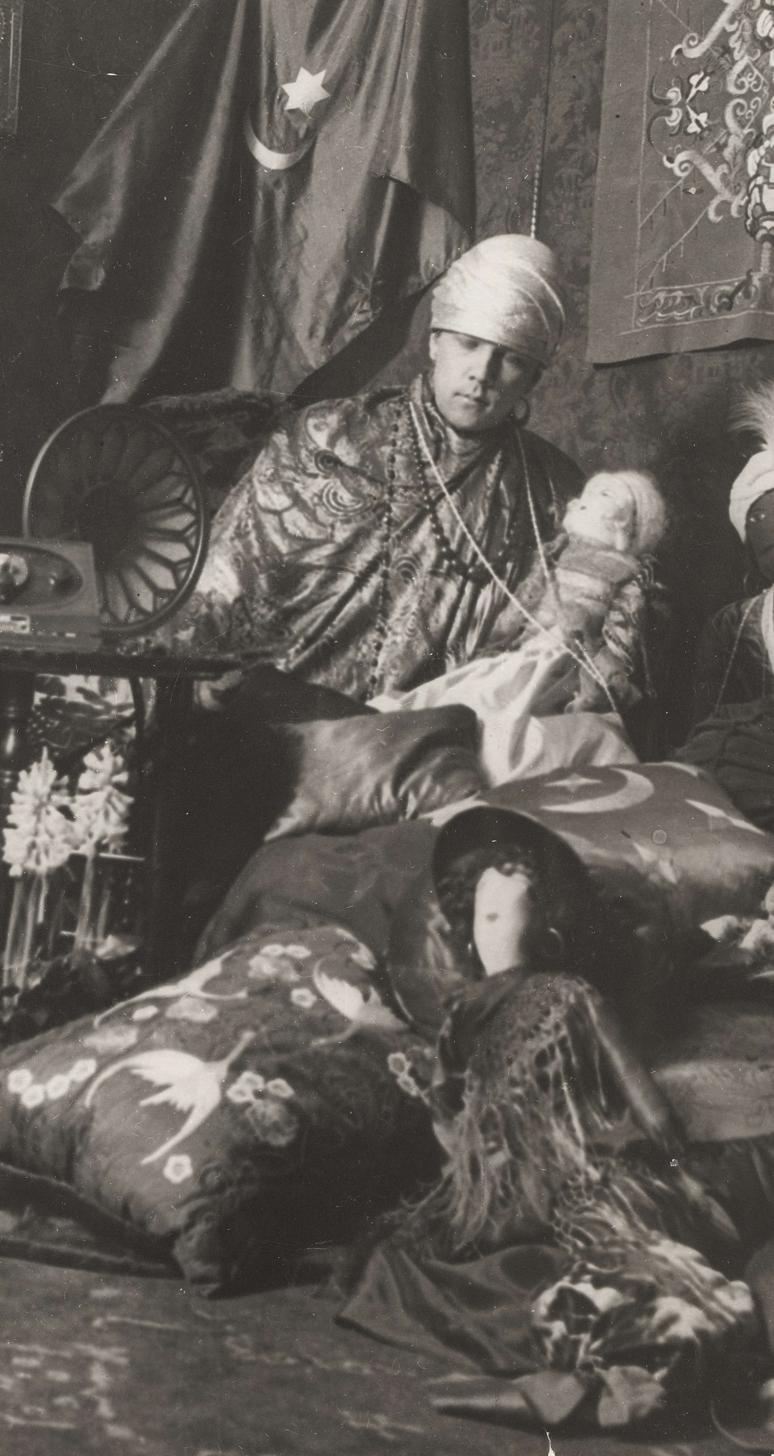 Photograph of Madame Minna Craucher (1891–1932) in her salon.